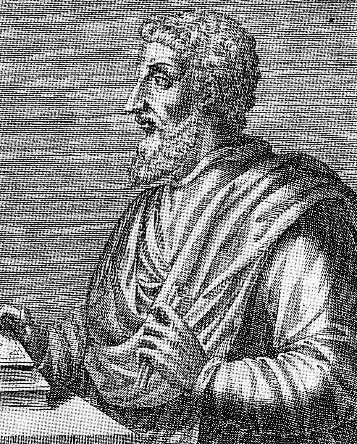 Marcus Terentius Varro (116-27 B.C.) Though the Romans long regarded the practice of medics as unworthy, three Romans, the so-called encyclopedists, made a considerable contribution to the science of medicine. The earliest of them, Marcus Terentius Varro (116-27 B.C.) is known only through references by other writers. He was aware of the existence of microorganisms, describing them as small creatures invisible to the eye, which fill the air, are breathed in, and cause dangerous diseases in the human body. The source of his knowledge remains a mystery.